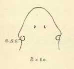 Dugesia tiberiensis (originally Planaria tiberiensis) form of head, showing position and form of auricular sense organs (a.s.o.). Enlarged 20 times.